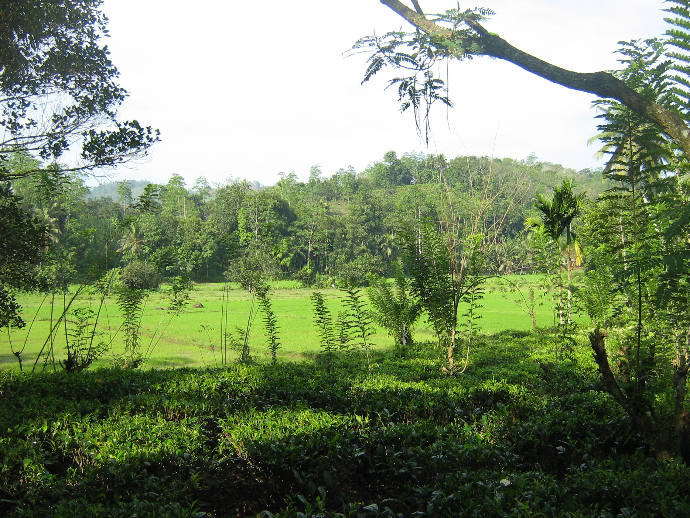 A photo of Baduraliya in the Kalutara District of Sri Lanka.